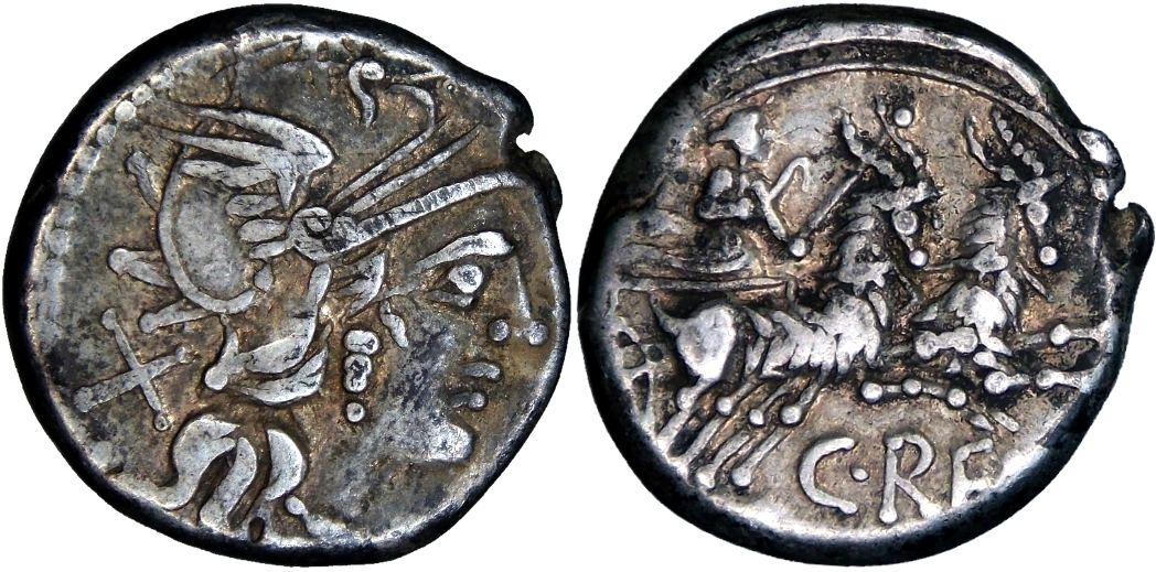 AR Denarius, Rome,138 BC Obverse: Helmeted head of Roma right; X behind. Reverse: Juno Caprotina driving a biga of goats right, holding sceptre and reins in left hand and whip in right hand; C RENI below goats; ROMA in exergue (not visible here). 4.04g Crawford 231/1